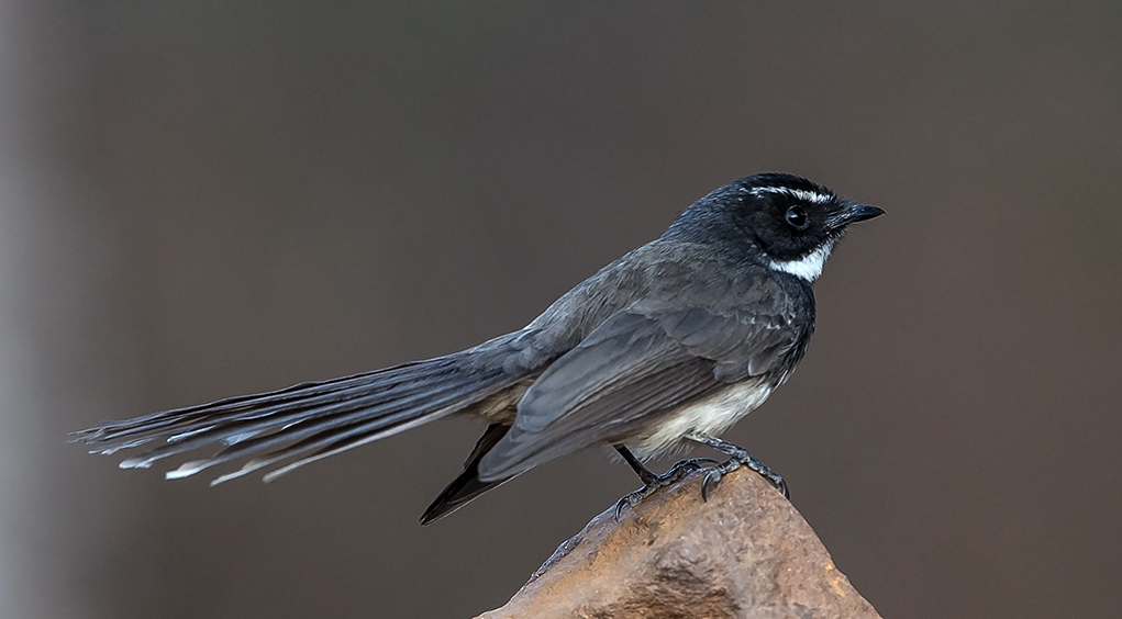 Rhipdura albicolis albogularis conce considered as a sub-species of the White-throated Fantail has now been accorded full species status. Endemic to the Southern or Peninsular India. Bangalore Feb 2015